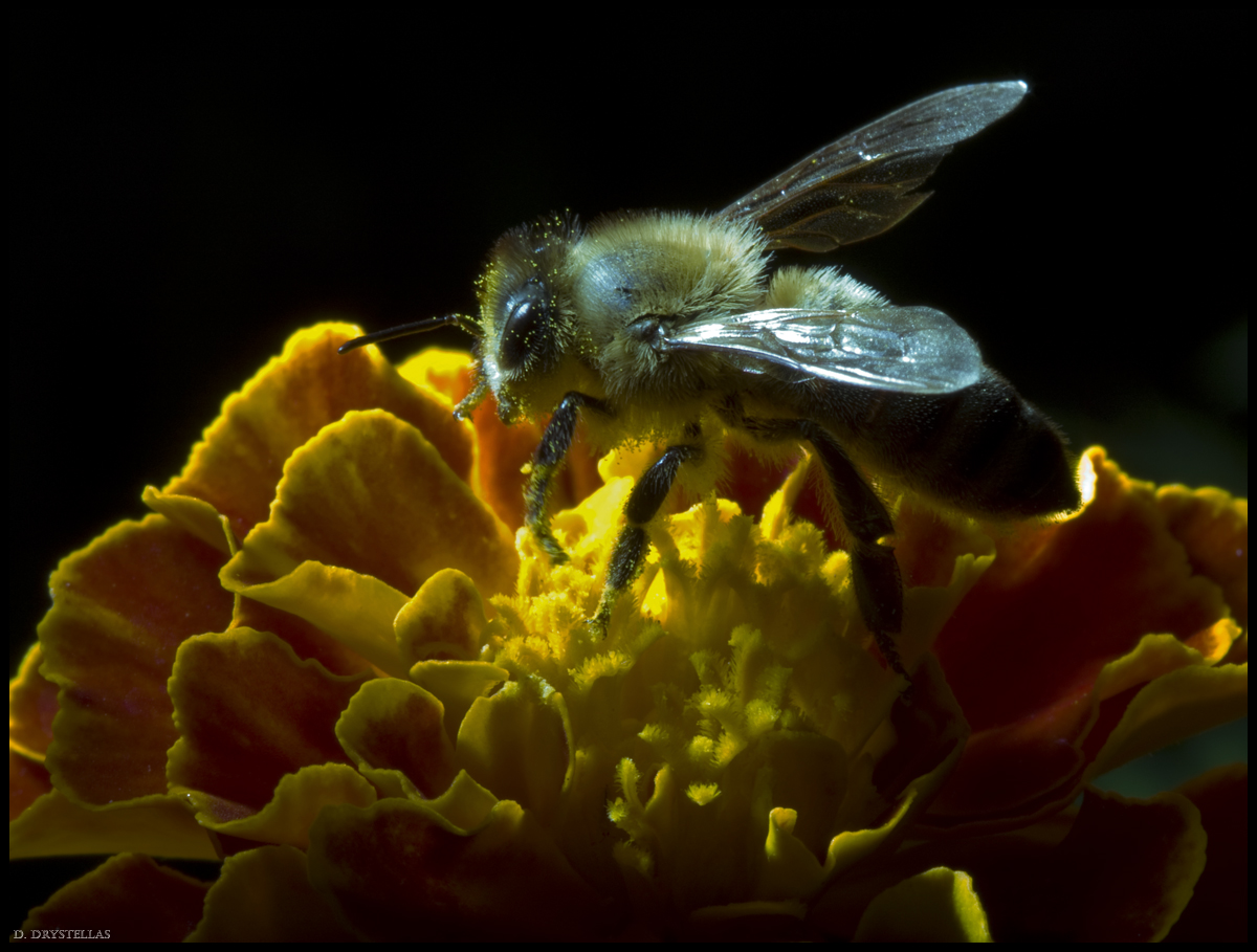 Apis Mellifora forager - European Honey Bee